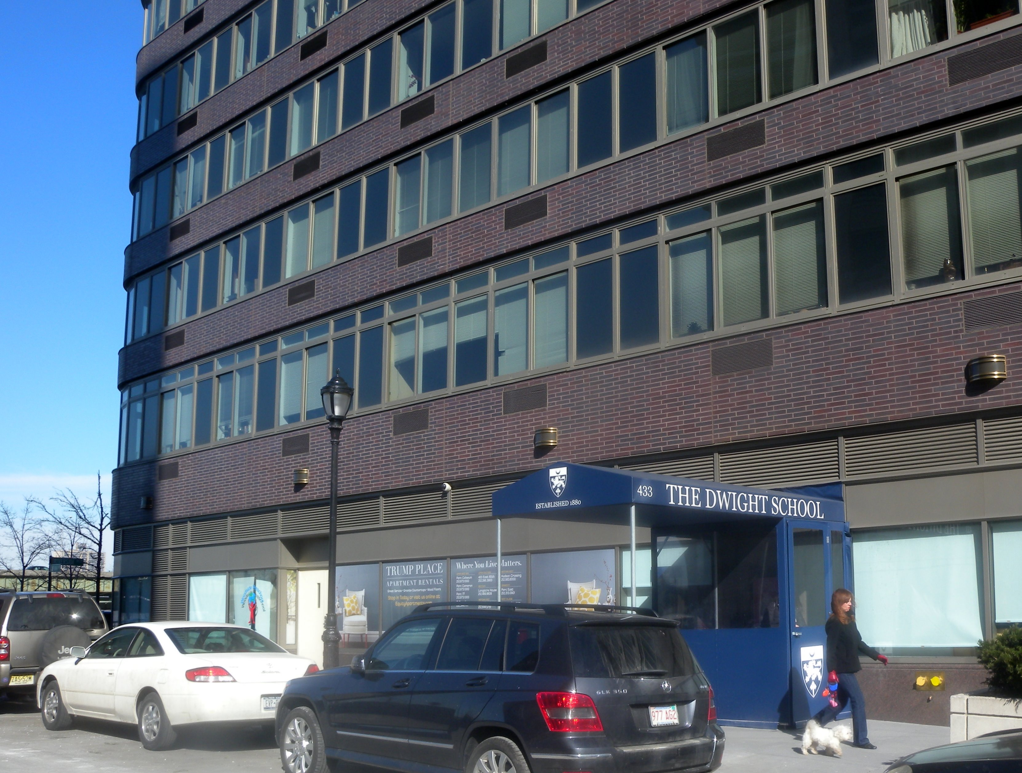 Looking north across West 66th at Dwight School on a sunny day.